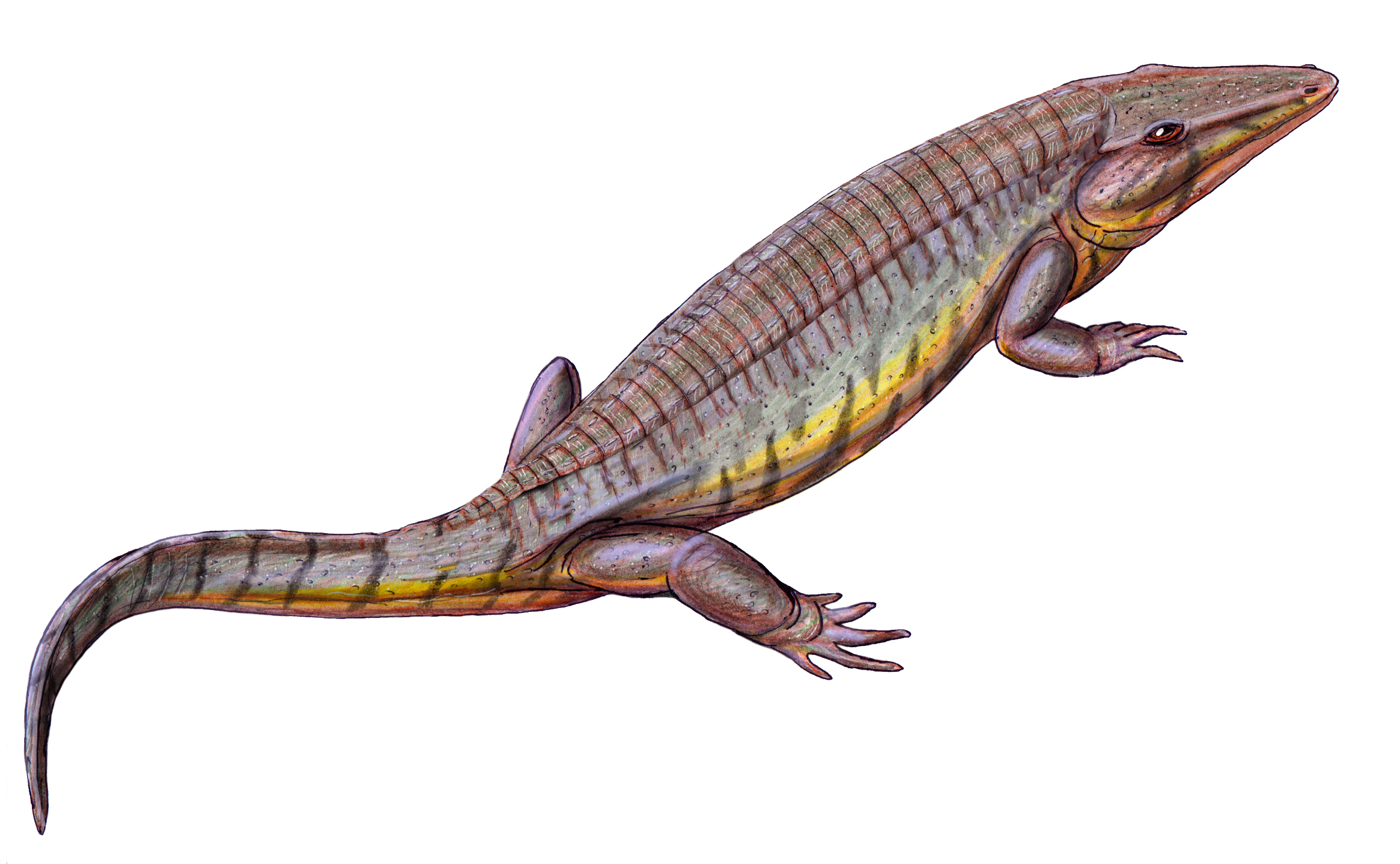 Artistic restoration of a Suchonica vladimiri specimen, chroniosuchid reptiliomorph from upper Permian (upper Tatarian age) deposits of Sukhona and Sundyr Formation of Vologda Region, Russia